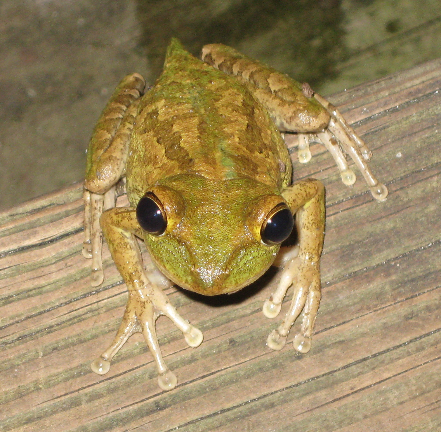 A Cuban treefrog Osteopilus septentrionalis. Taken on a staircase in Palmetto, Florida.